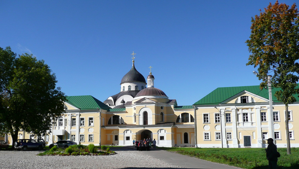 The Nativity Convent in Tver The Saviour Church (1801-05)